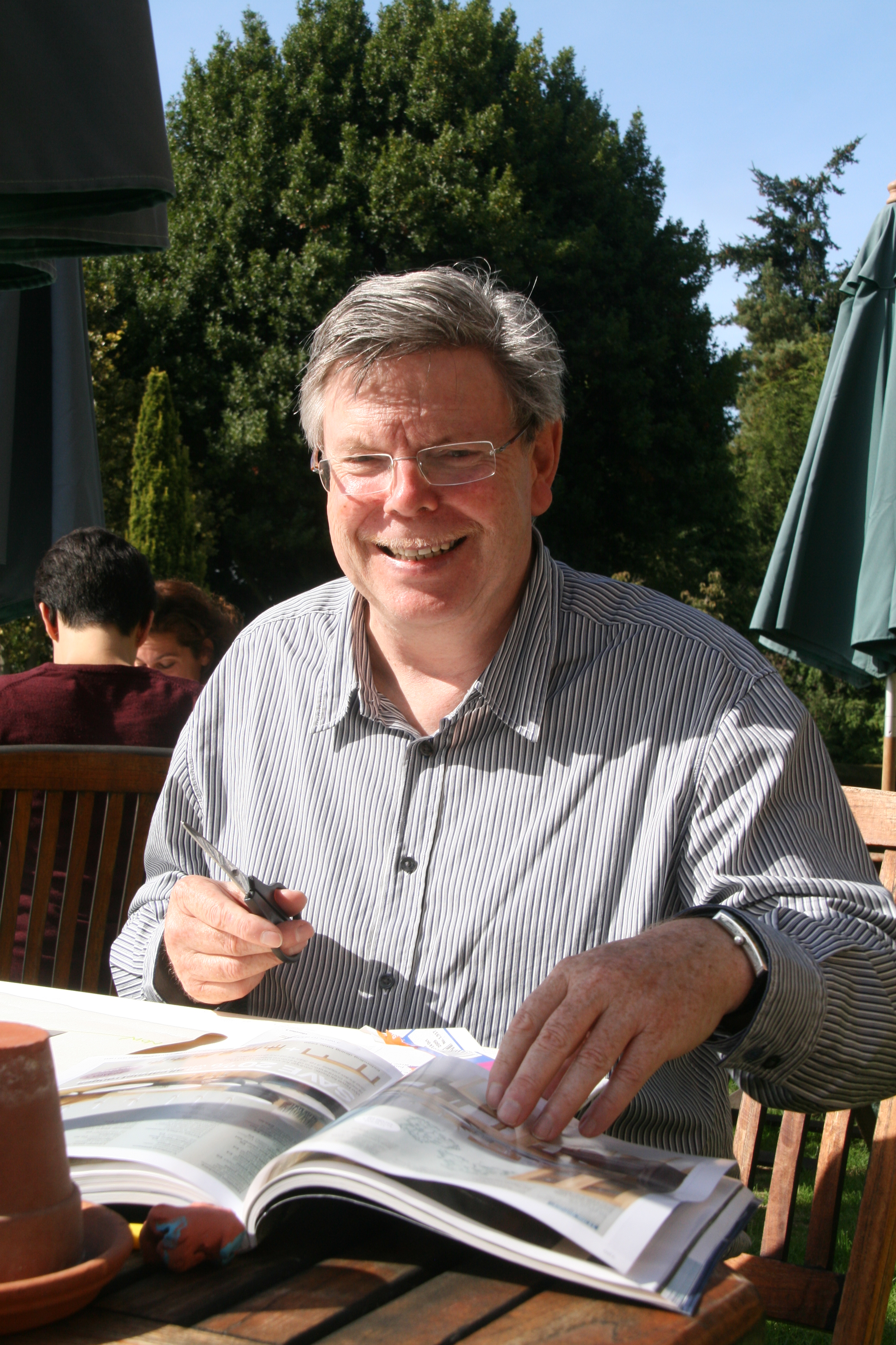 Nationality: Born in New Zealand Areas: Continental and Western Political Theory Main Interests: Political Theory